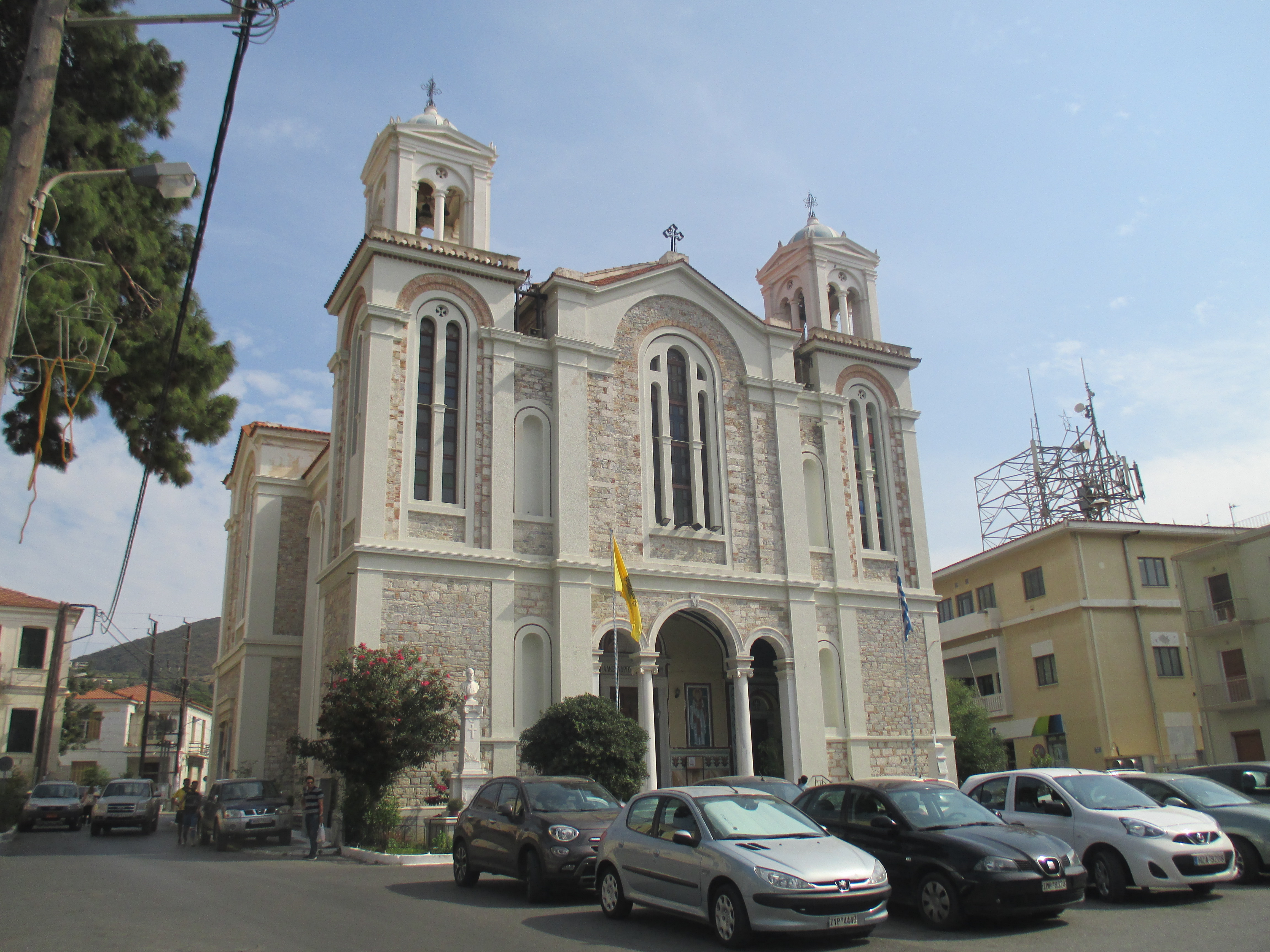 Agios Spyridonas (Spyridon) church, Samos town, Samos, Greece.